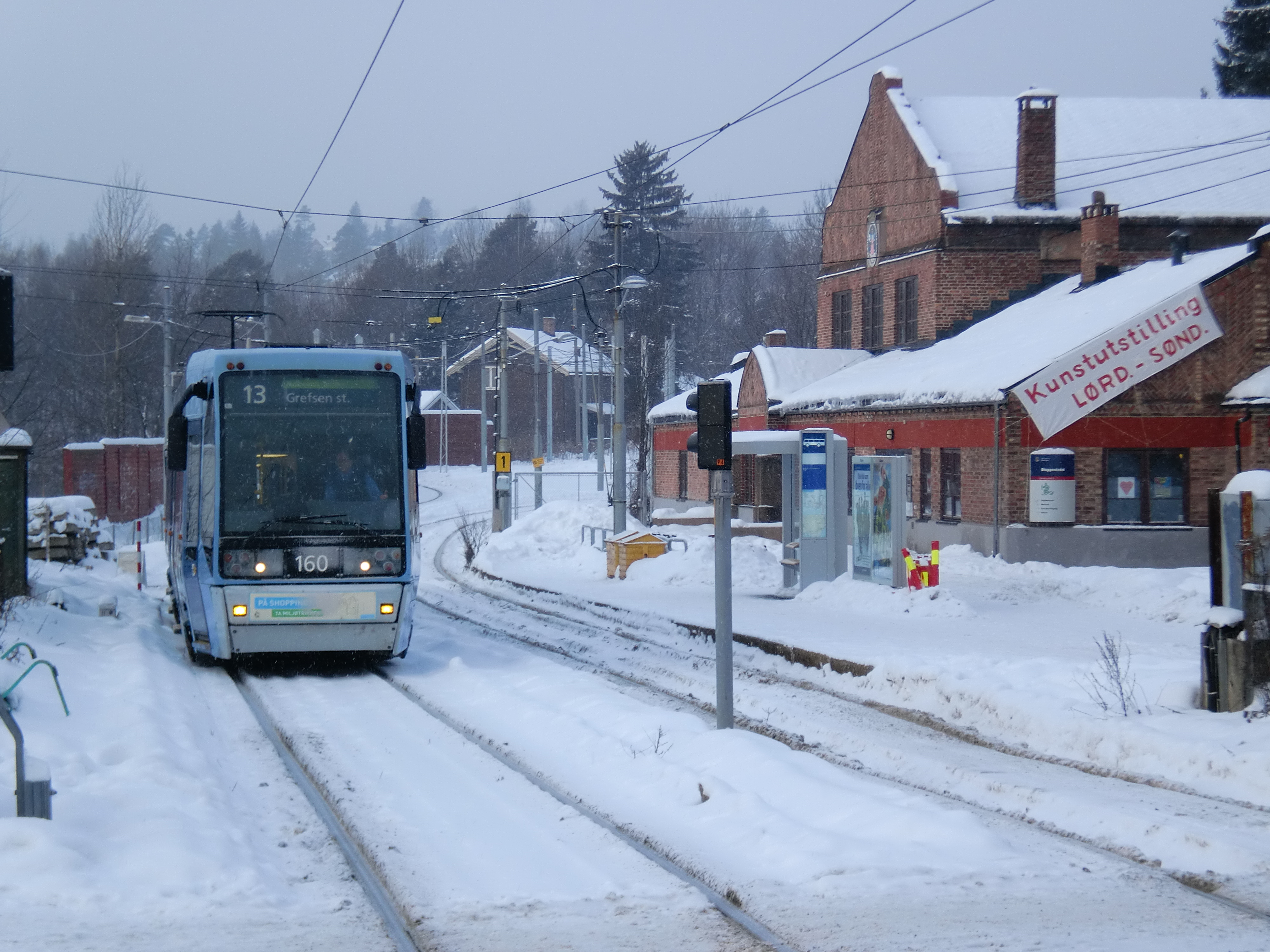 Lilleaker station, winter 2010.